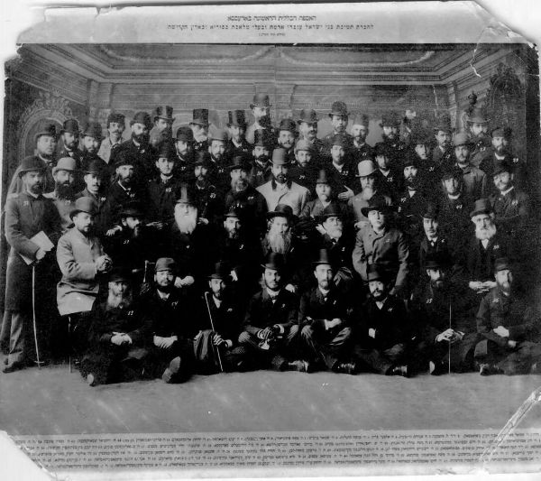 The first general meeting of the Odessa Committee. In the front row from right to left: (4) Ahad HaAm, (6) Yehoshua Eisenshteft. In the second row: (2) Shmuel Barbash, (4) L. Pinsker, (5) Shmuel Mohilever, (6) Avraham Grinberg, (9) Jacob Mazeh. In the third row: (9) Ze'ev Tyomkin, (4) Yisrael Jasinowski.